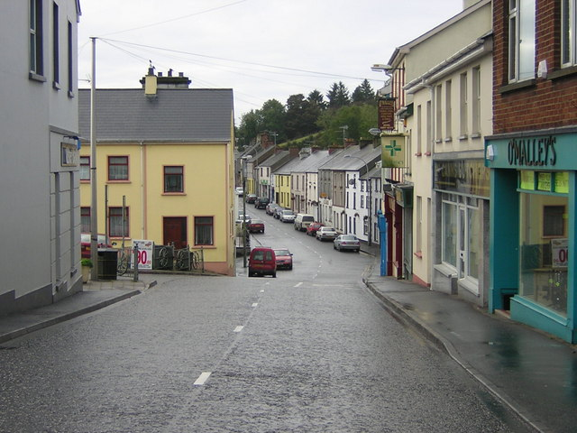 Village Centre - Newtownhamilton Just north of town square looking south, October, 2004